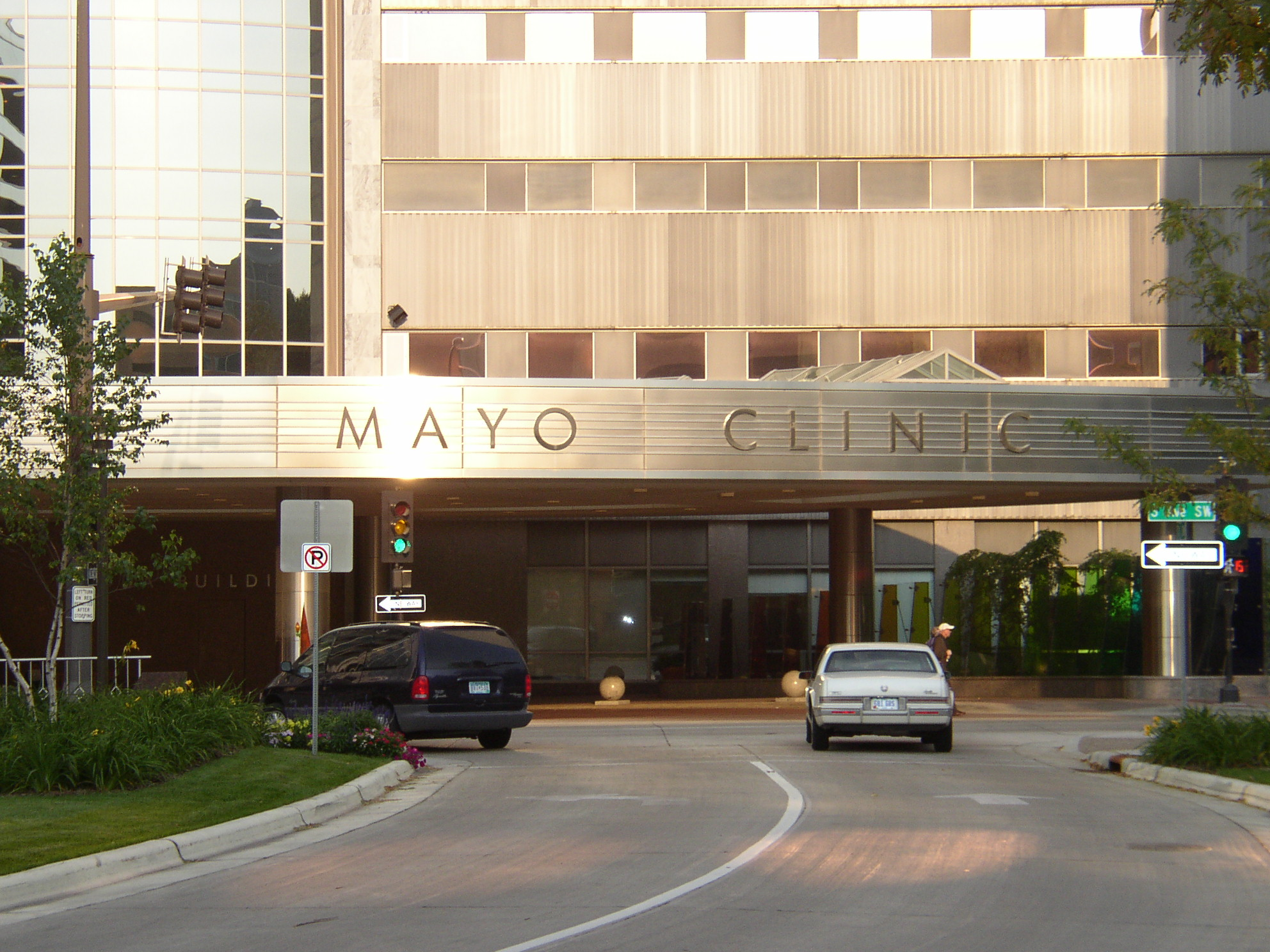 This is a closeup of one entrance to the Gonda building of the Mayo Clinic in Rochester, Minnesota. I, User:Knowledge Seeker, took this photograph.